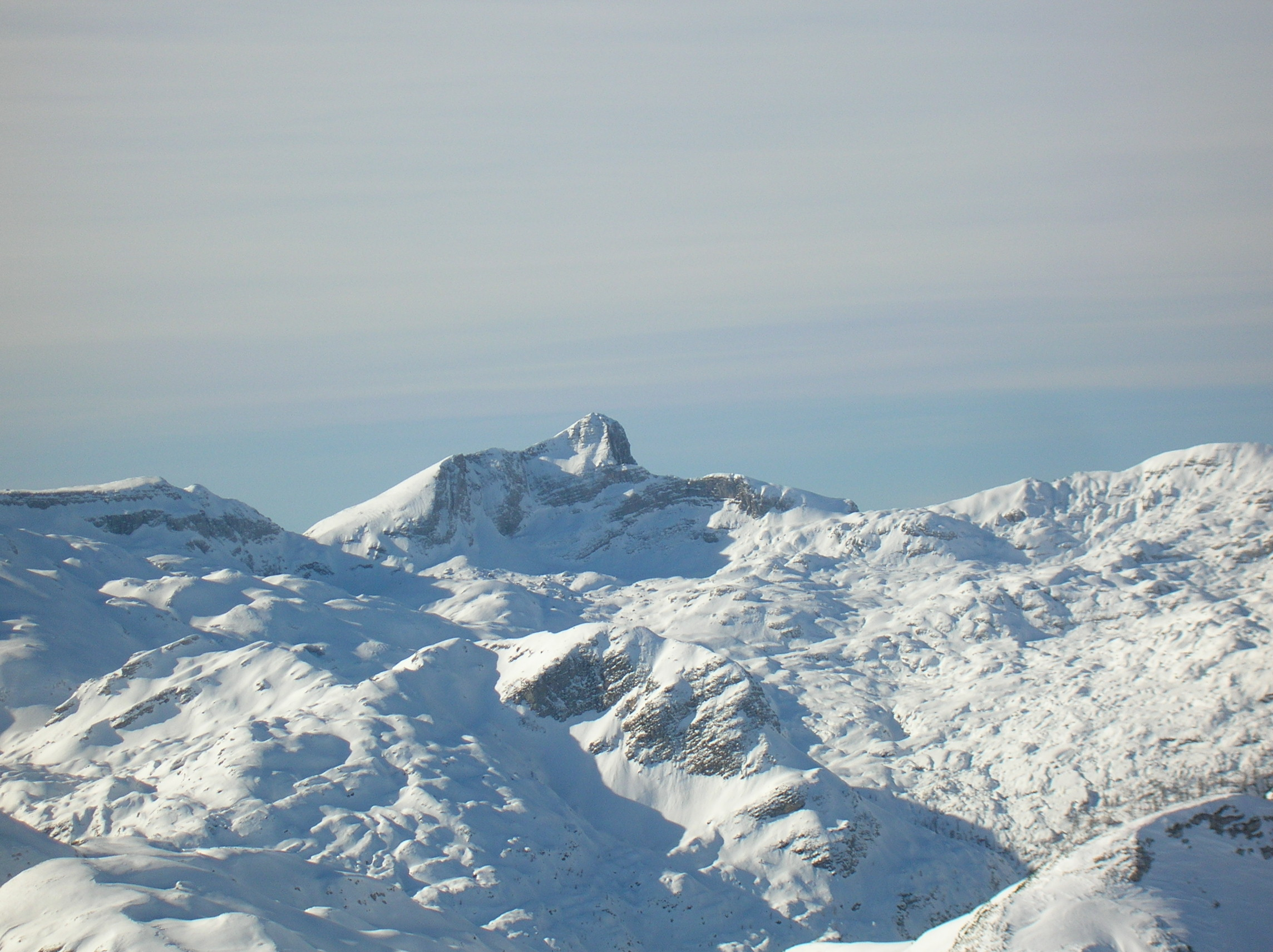 Krn mountain in the julian alpes